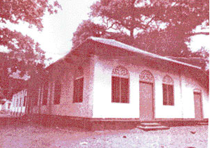 First picture of Sri Sumangala College at Panadura Rankoth Viharaya premises on March 03, 1909